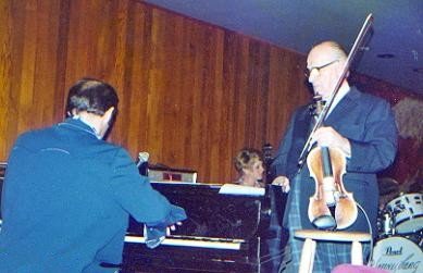 Joe Venuti with the Bubba Kolb Trio at the Village Jazz Lounge, Disneyworld